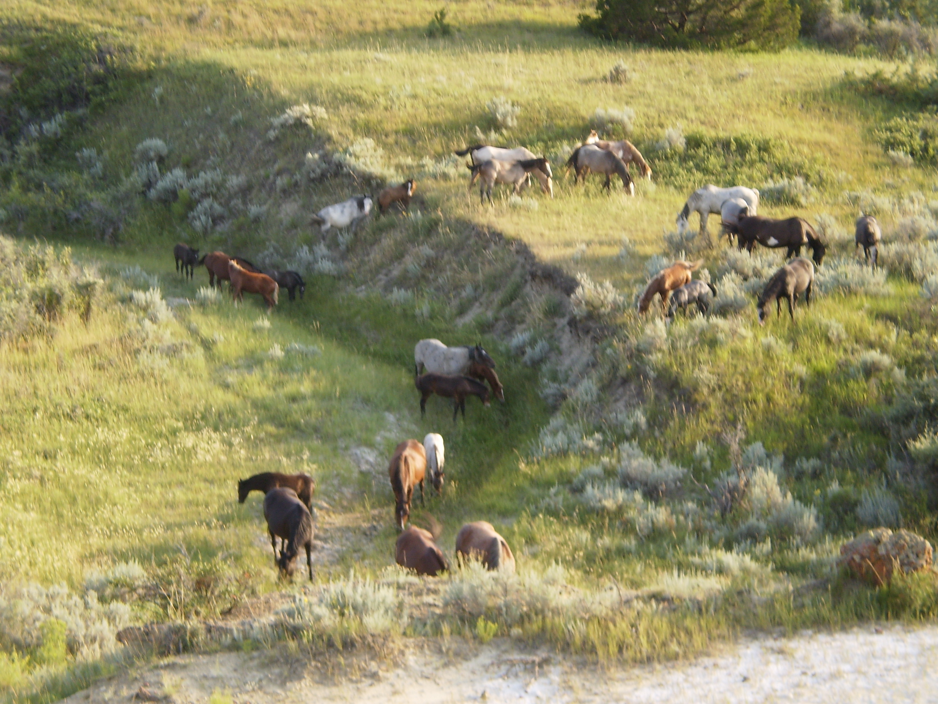 A herd of wild horses in Theodore Roosevelt National Park, North Dakota, USA.